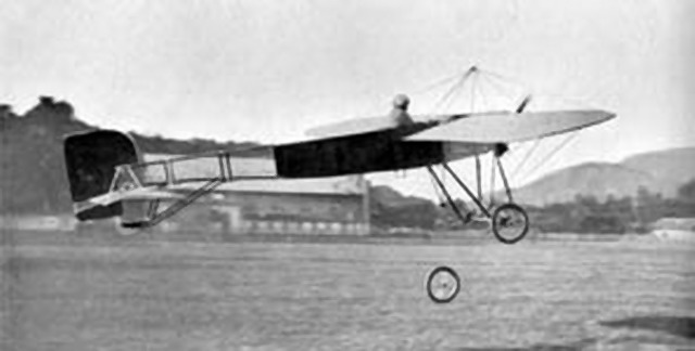 Emile Taddéoli in a Morane aircraft taking in Biel/Bienne towards to Bern (Switzerland) on June 3, 1913.